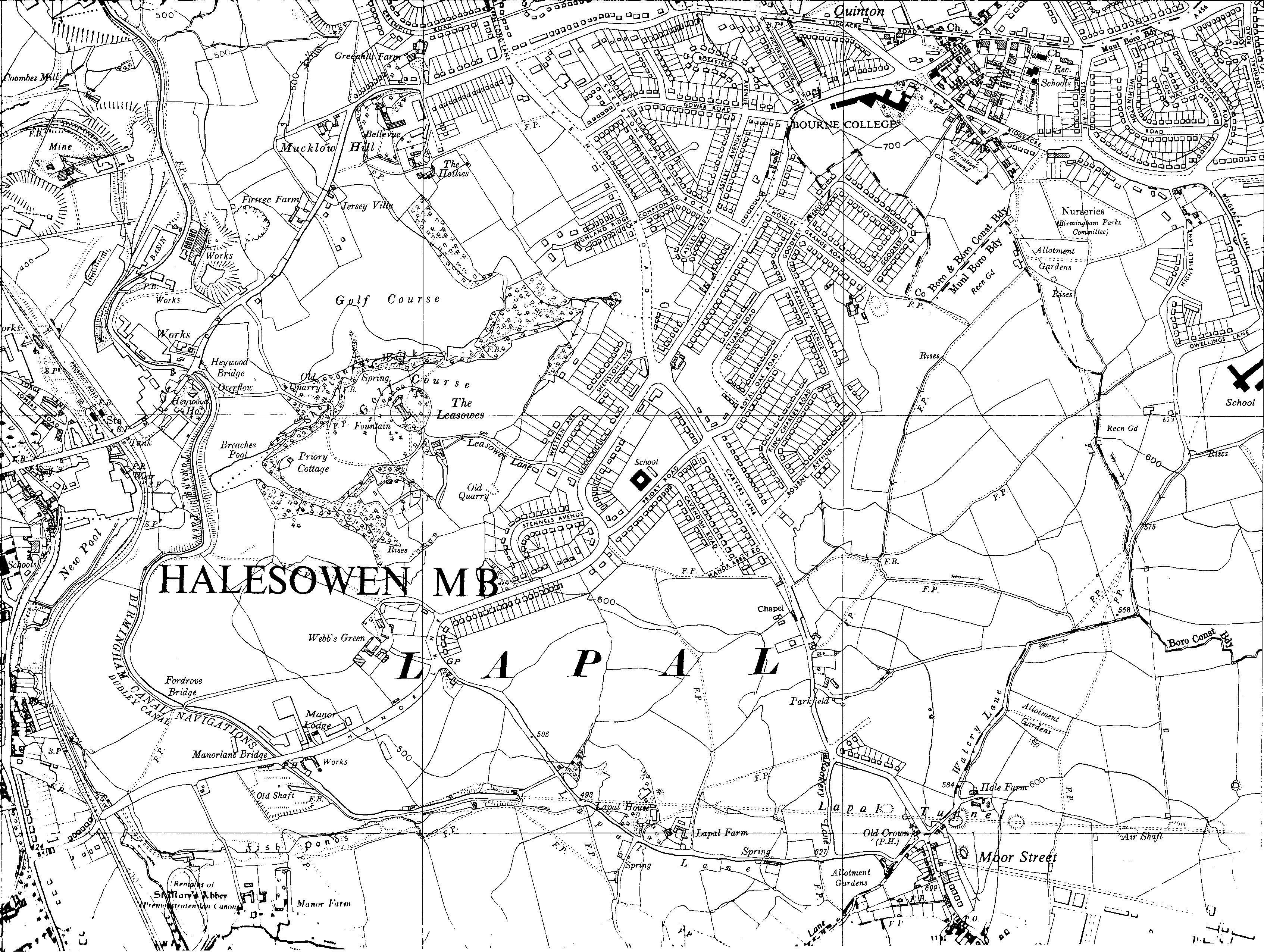 Old OS map of Halesowen and the western portal of the Lapal Tunnel on the Dudley Canal in England. Portal is below the capital "A" of "LAPAL".